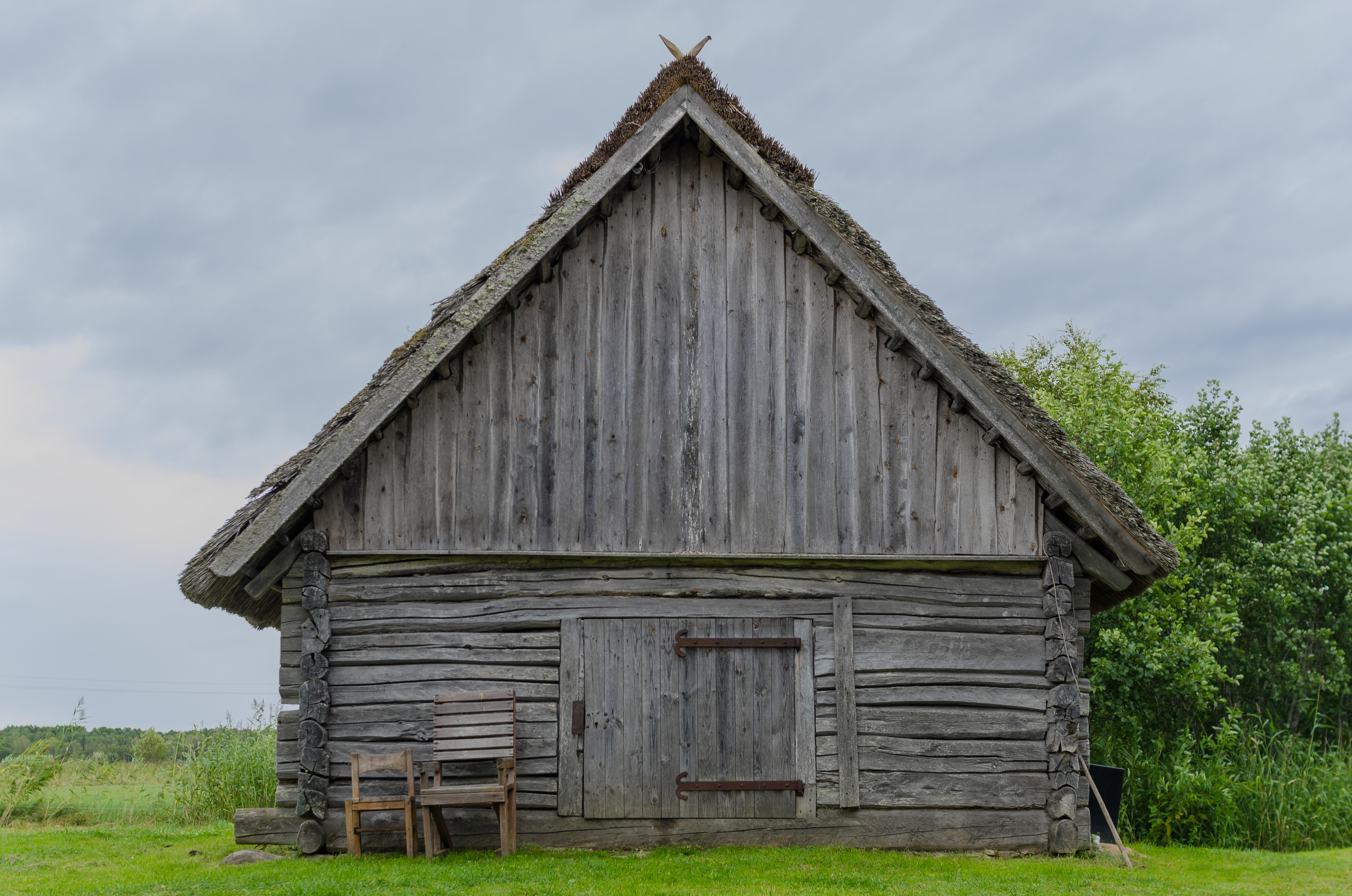 Old net shed by the Tuudi river, Matsalu National Park, Estonia